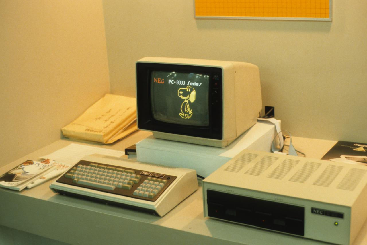 Nec pc 8000 serie with monitor and external floppy